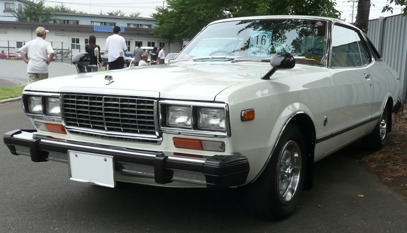 Nissan Bluebird 2000 G6 Hardtop - looks like a KRG811.